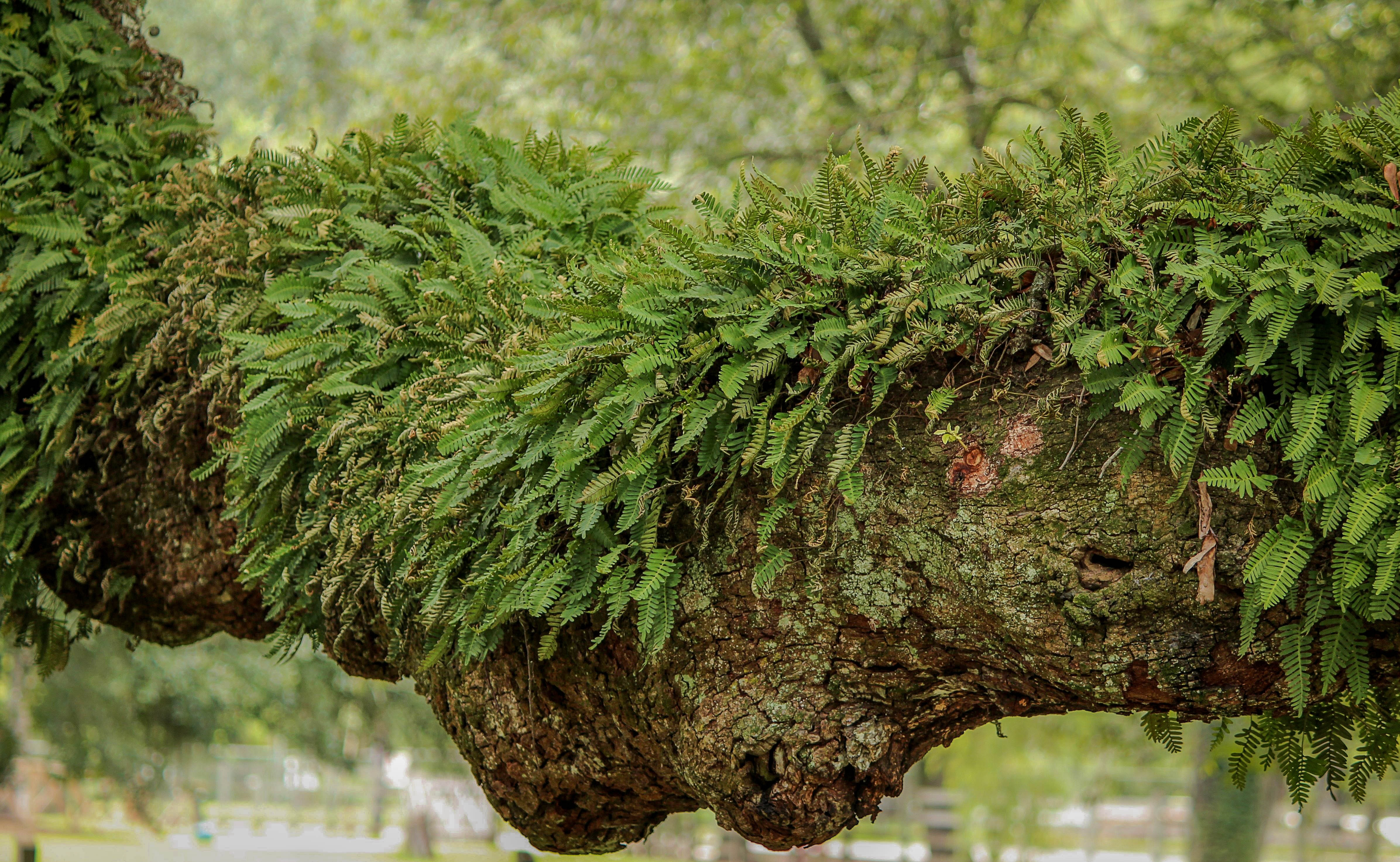 Resurrection fern (Pleopeltis polypodioides)